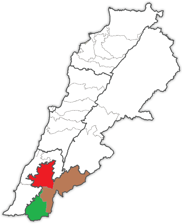 electoral district (2017 Election Law)